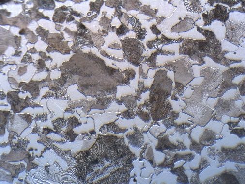 Microscopic view, ferrite and cementite